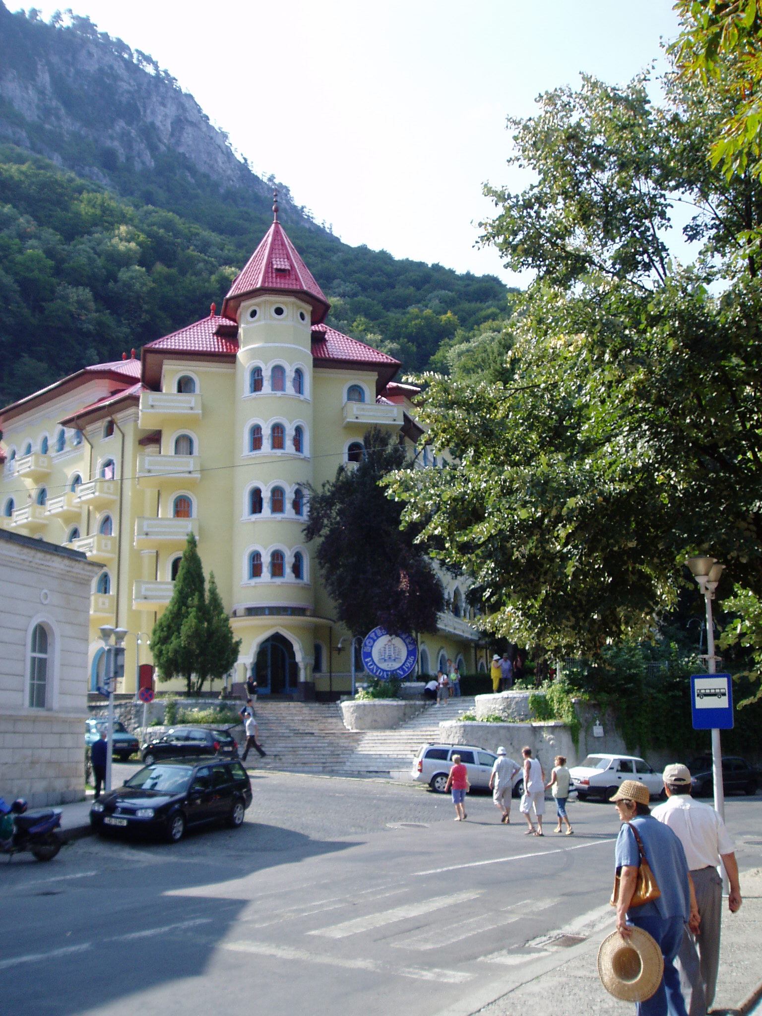 Cerna Herculane